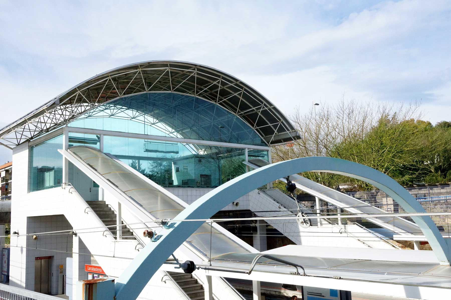 Metro Larrabasterra